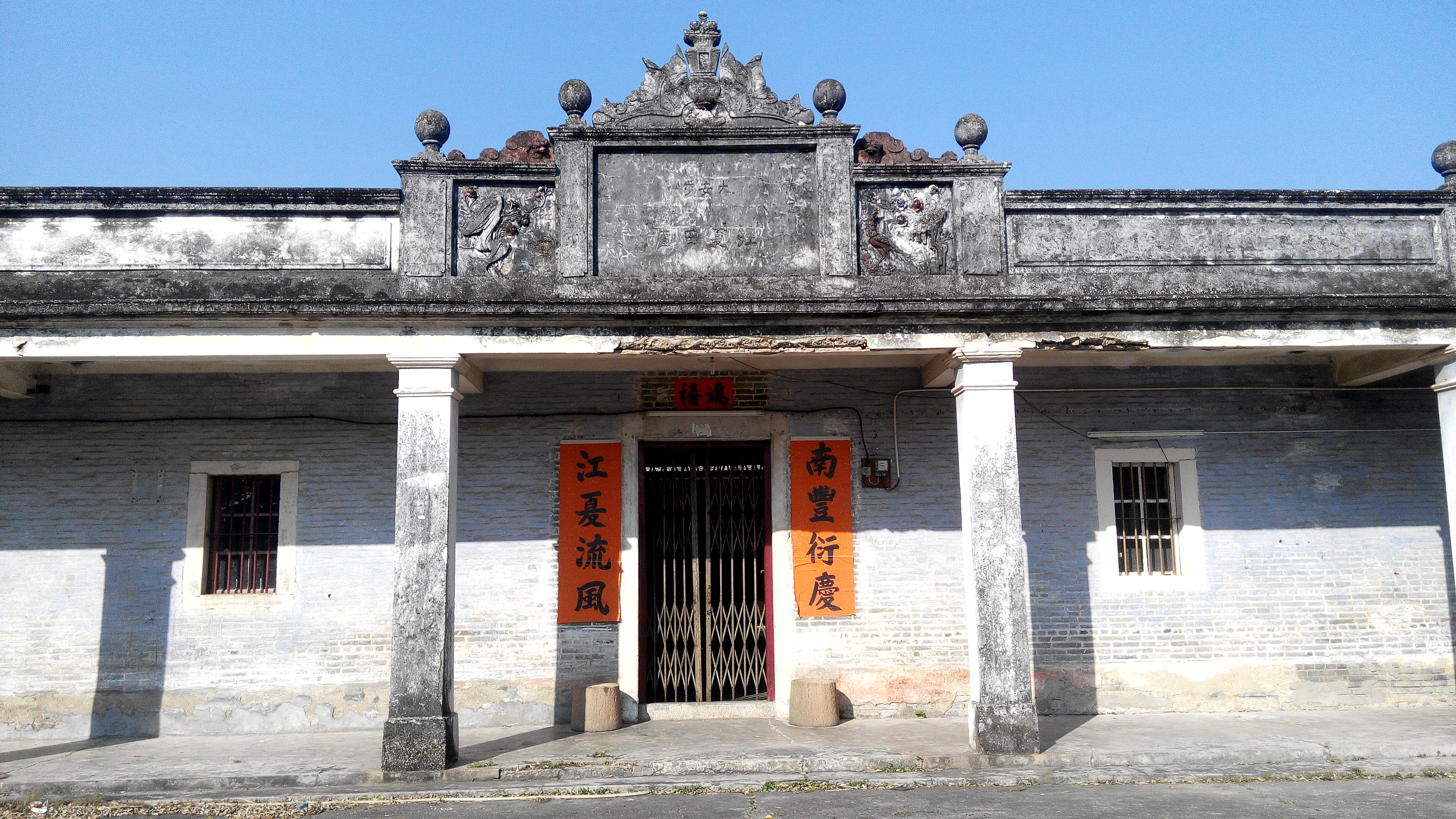 Kam Tin, Tai Kong Po, Kong Ha Tin Lo